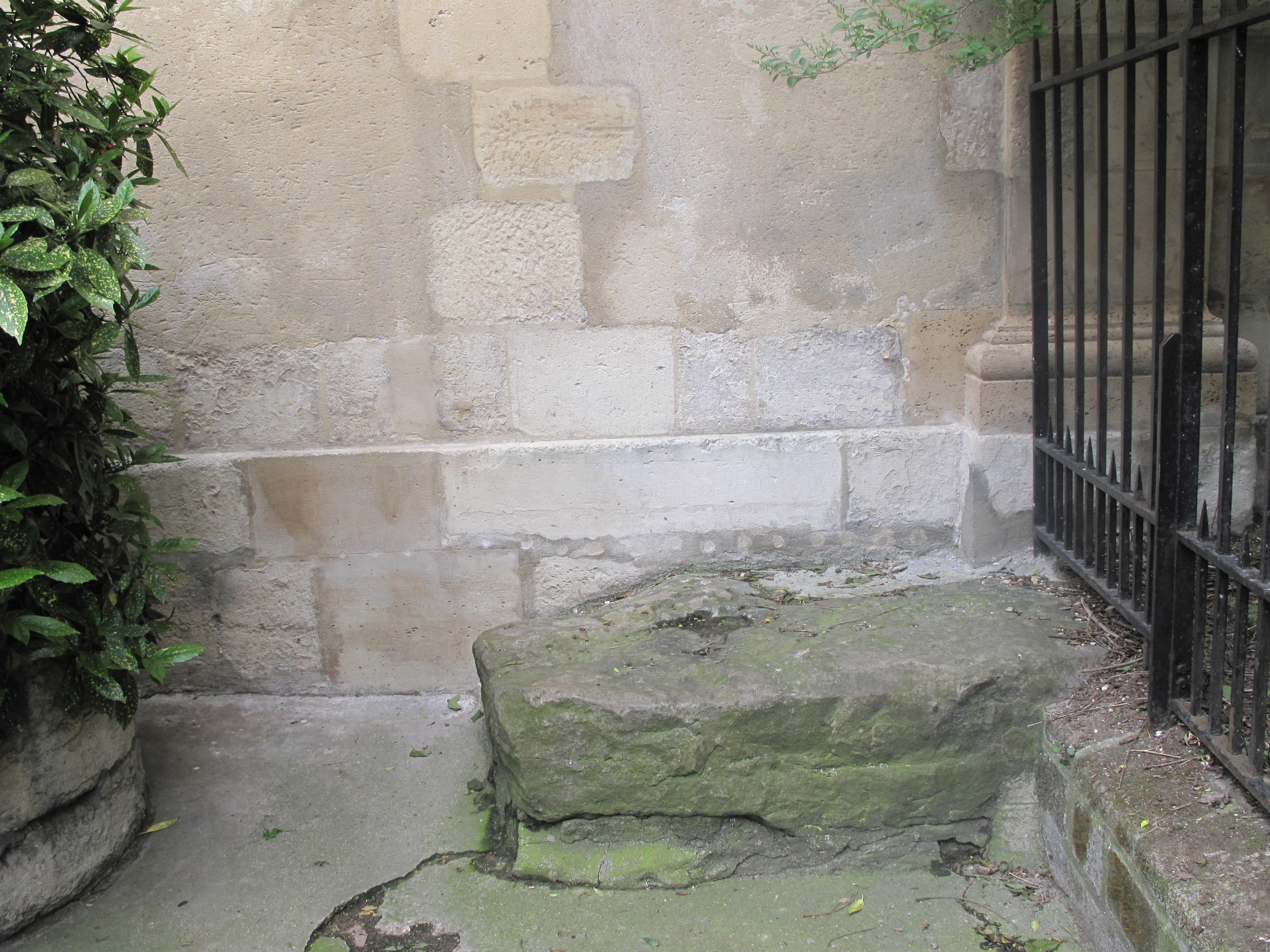 Flagstone of the ancient roman road (north-south), at the bottom and on the right of the facade of the church Saint-Julien-le-Pauvre, Paris 5th arr.